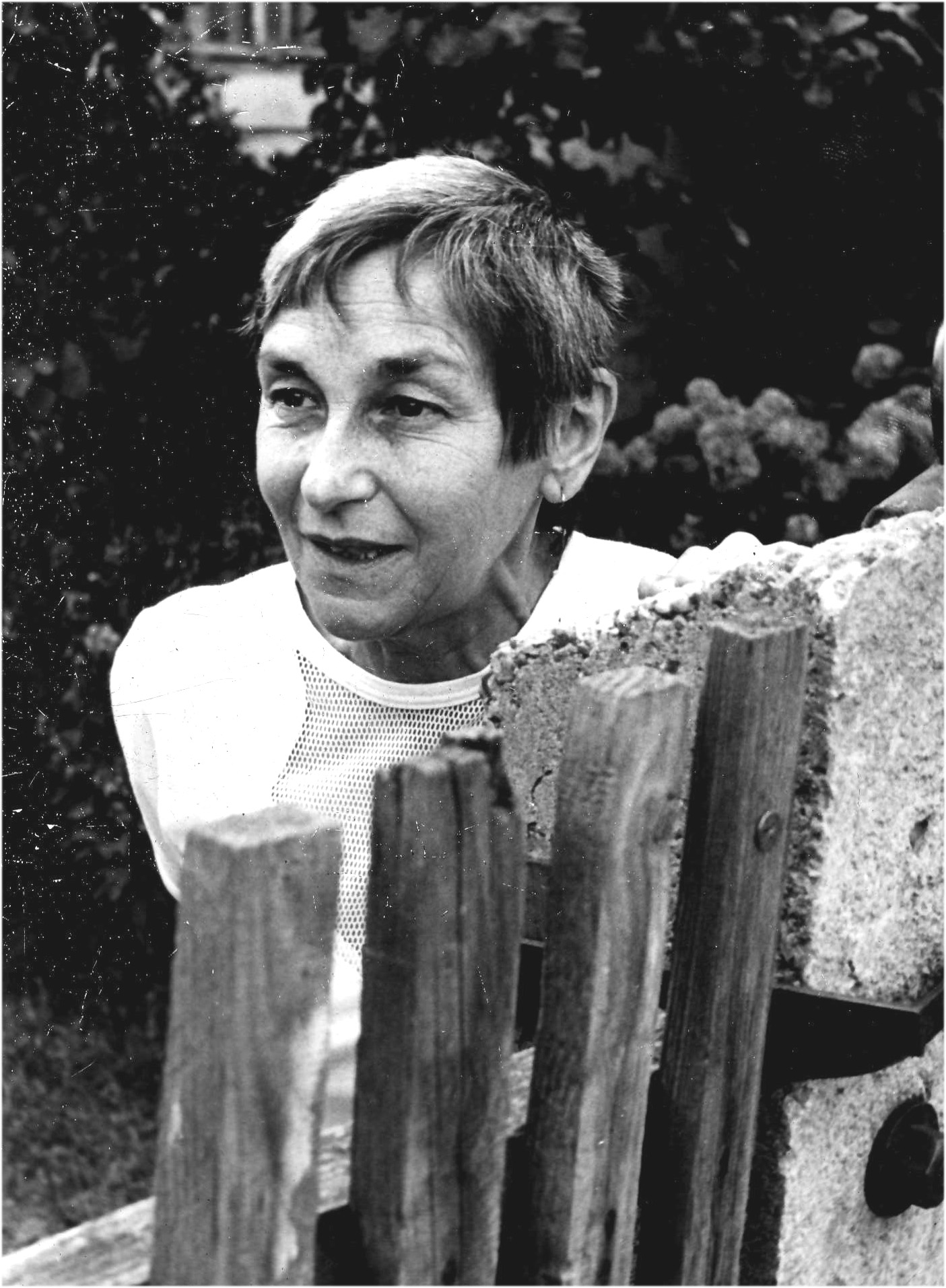 Doina Cornea (1928–2018) Romanian French language professor and human rights activist. The picture was made in the garden of his family house while the police guarded the front door so that no one could contact her.